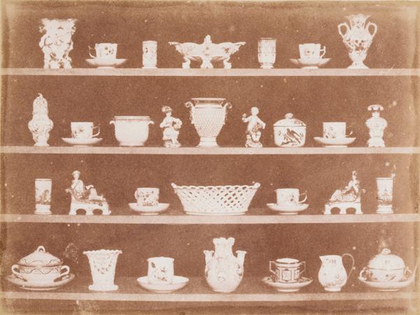 William Henry Fox Talbot's 'Articles of China'